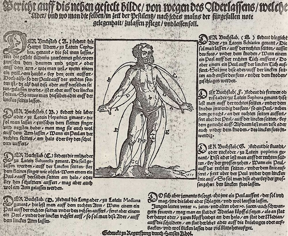 Bloodletting as a treatment for plague.